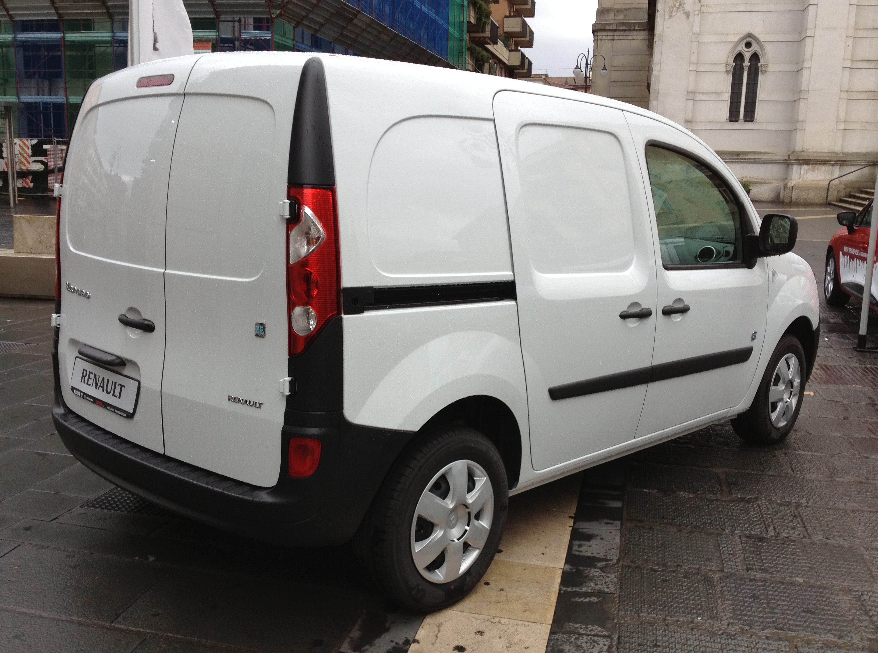 2012 Renault Kangoo Z.E. rear in Avellino, Italy